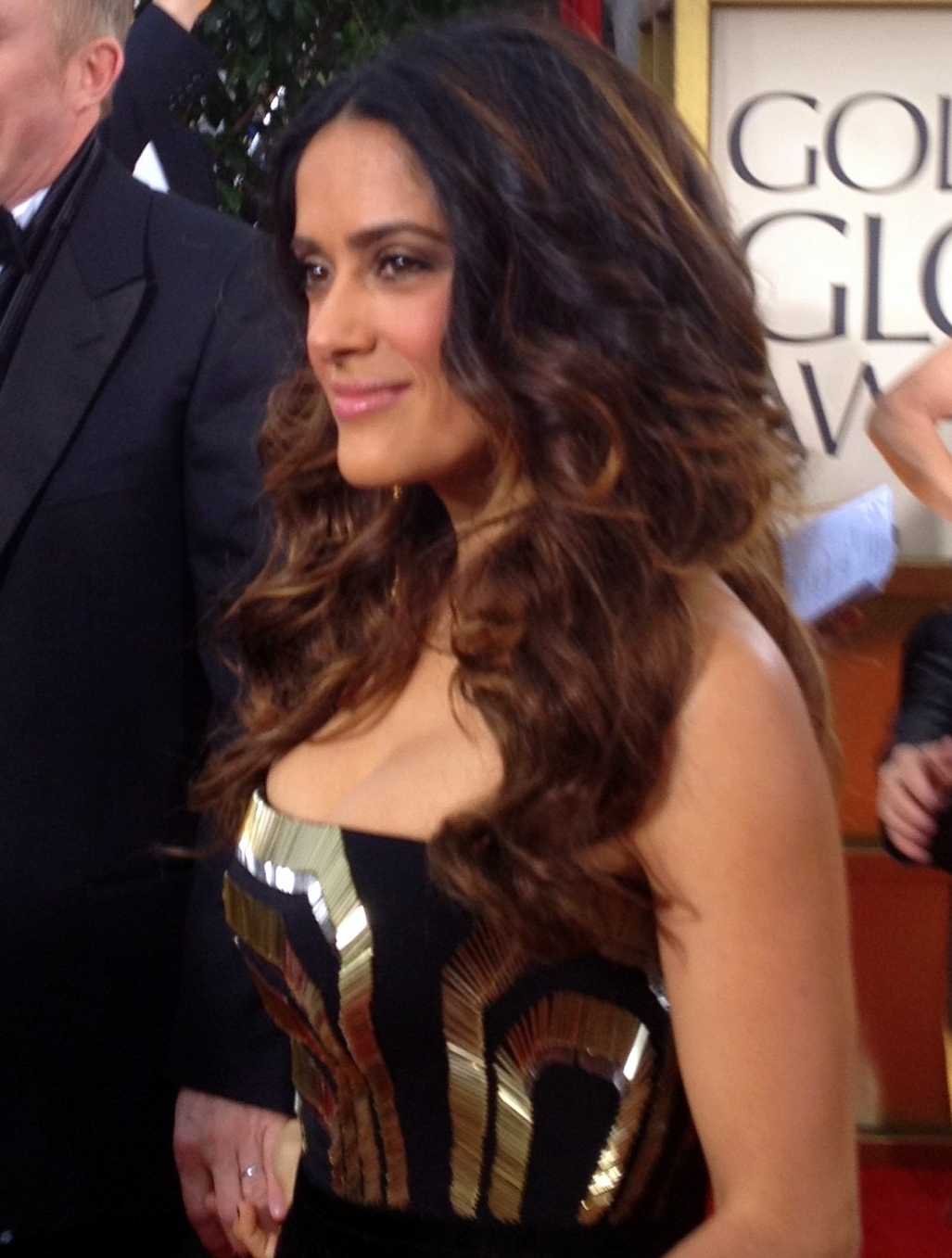 Salma Hayek at the 69th Annual Golden Globes Awards 2012.